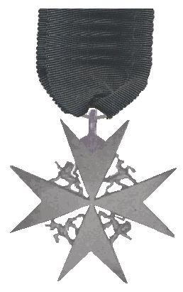 Brother of the Venerable Order of Saint John. Cross used after 1984